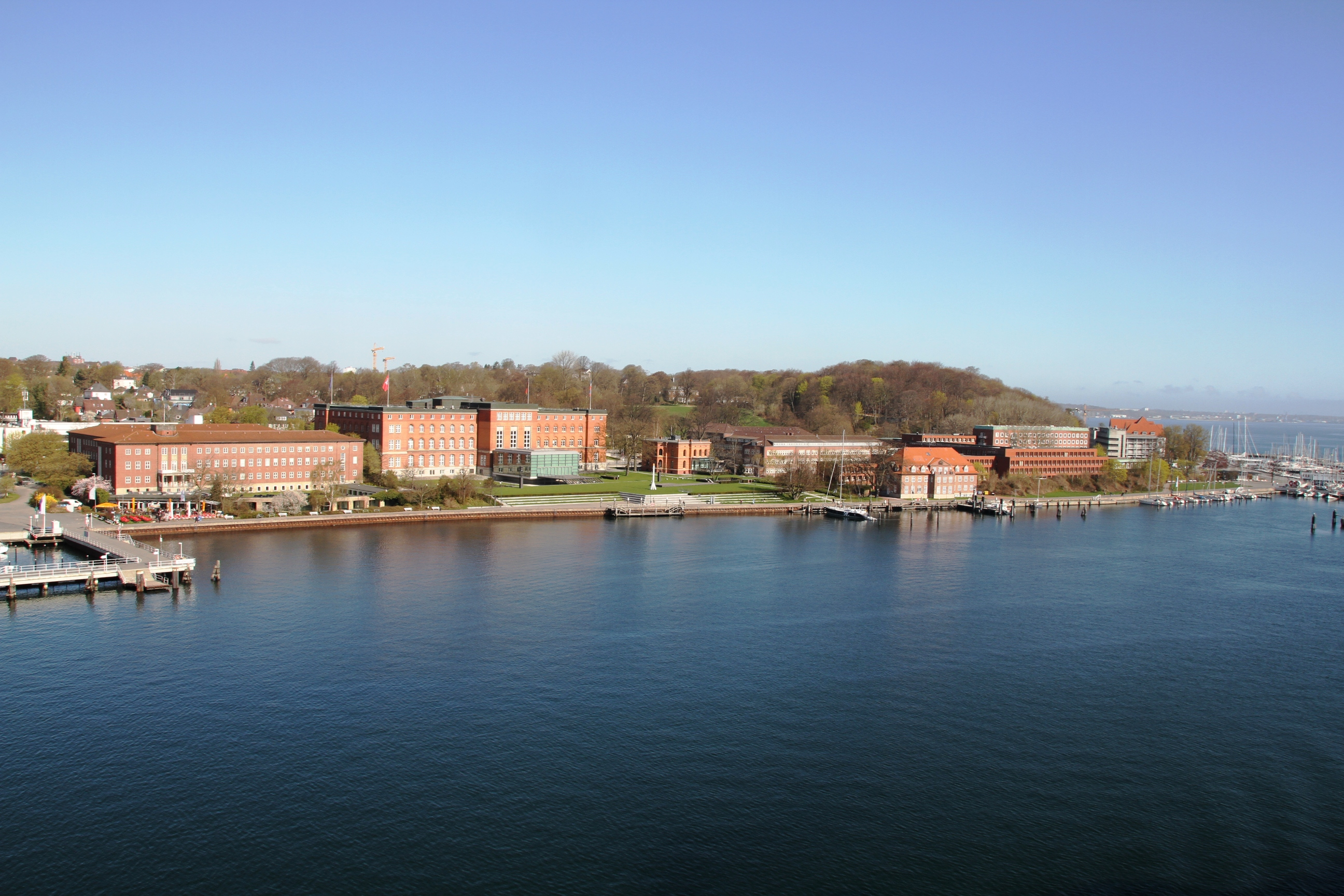 Image from the Kieler Förde, showing the building complex of the state government and state legislature of Schleswig-Holstein - the northern state of Germany. Kiel city and fjord, north Germany. The pedestrian areas (partly a street) along the western shore is called Kiellinie (Kiel Line).